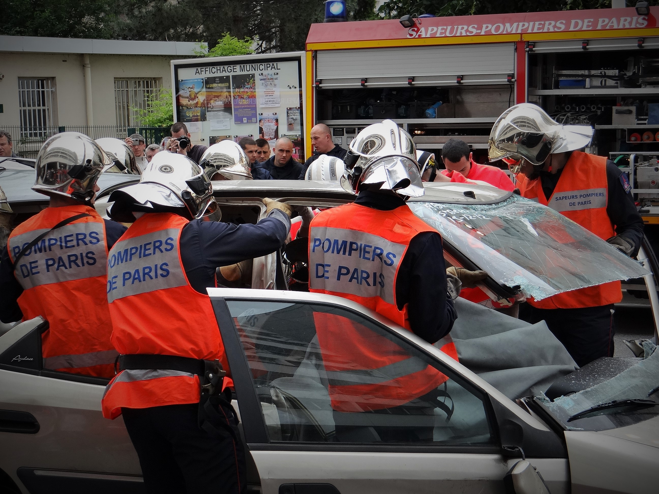 extrication exercise by firefighters from Paris